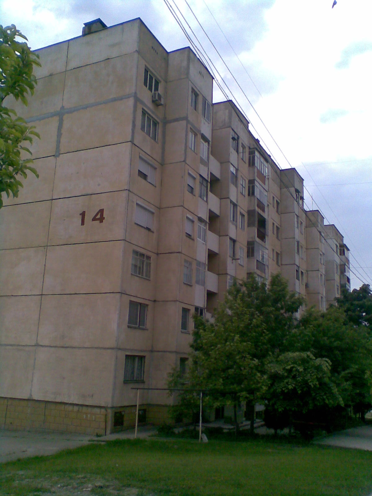 Google translate from Bulgarian: Control unit in Stara Zagora